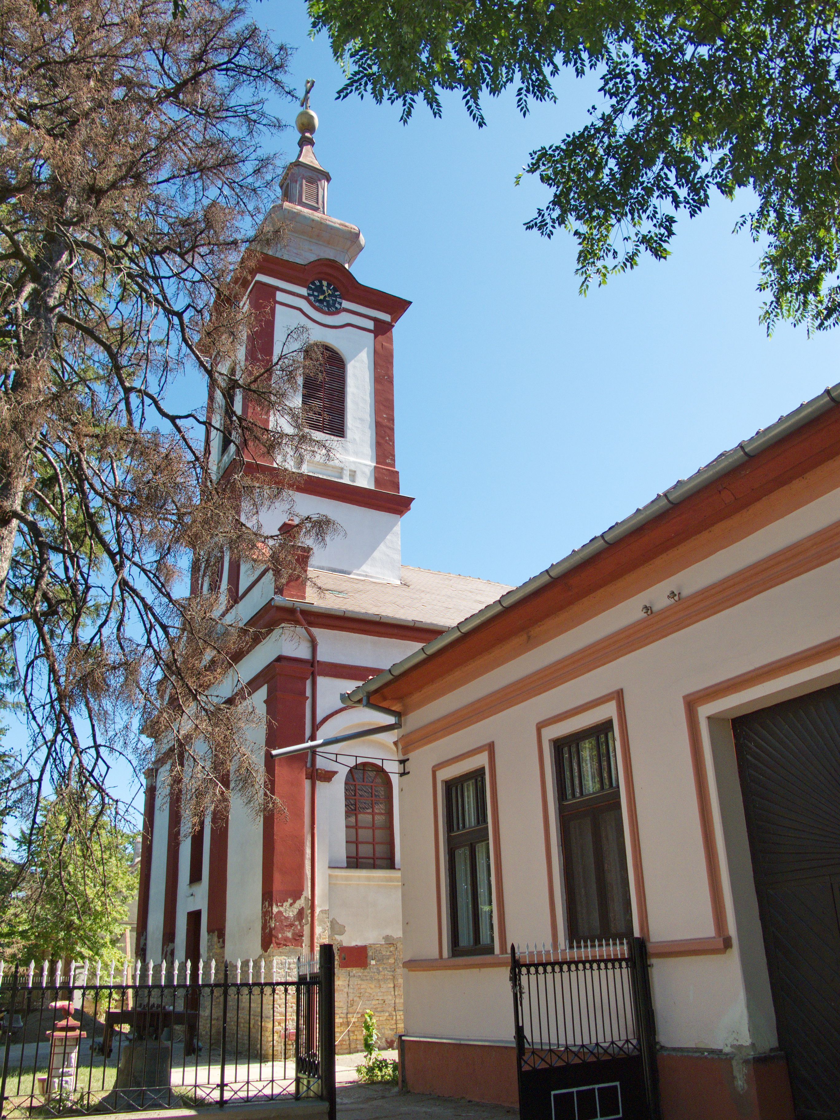 Srpska pravoslavna crkva u Novom Miloševu, mestu u opštini Novi Bečej, je podignuta 1842.Sadašnja crkva je posvećena Arhanđelima Mihailu i Gavrilu, podignuta je kao građevina pod uticajem neoklasicizma, sa plitkim pilastrima nad kojima je krovni venac i timpanonsko trougaono polje. Za razliku od gotovo plošno izvedene zapadne fasade, one bočne su rešene sa dubokim polukružnim nišama u kojima su smešteni prozori.Rezbarija ikonostasa je uzdržan klasicistički, bidermajerski rad nepoznatog majstora. Nikola Aleksić slikao je 1855. godine ikone, tronove i pevnice, Hristov grob, kao i zidne slike na svodu nad soleom. Ostale zidne slike na svodu i severnom zidu izveo je Josip Gojgner. Sačuvana je i jedna ikona takozvane Arapske Bogorodice s početka 19. veka.